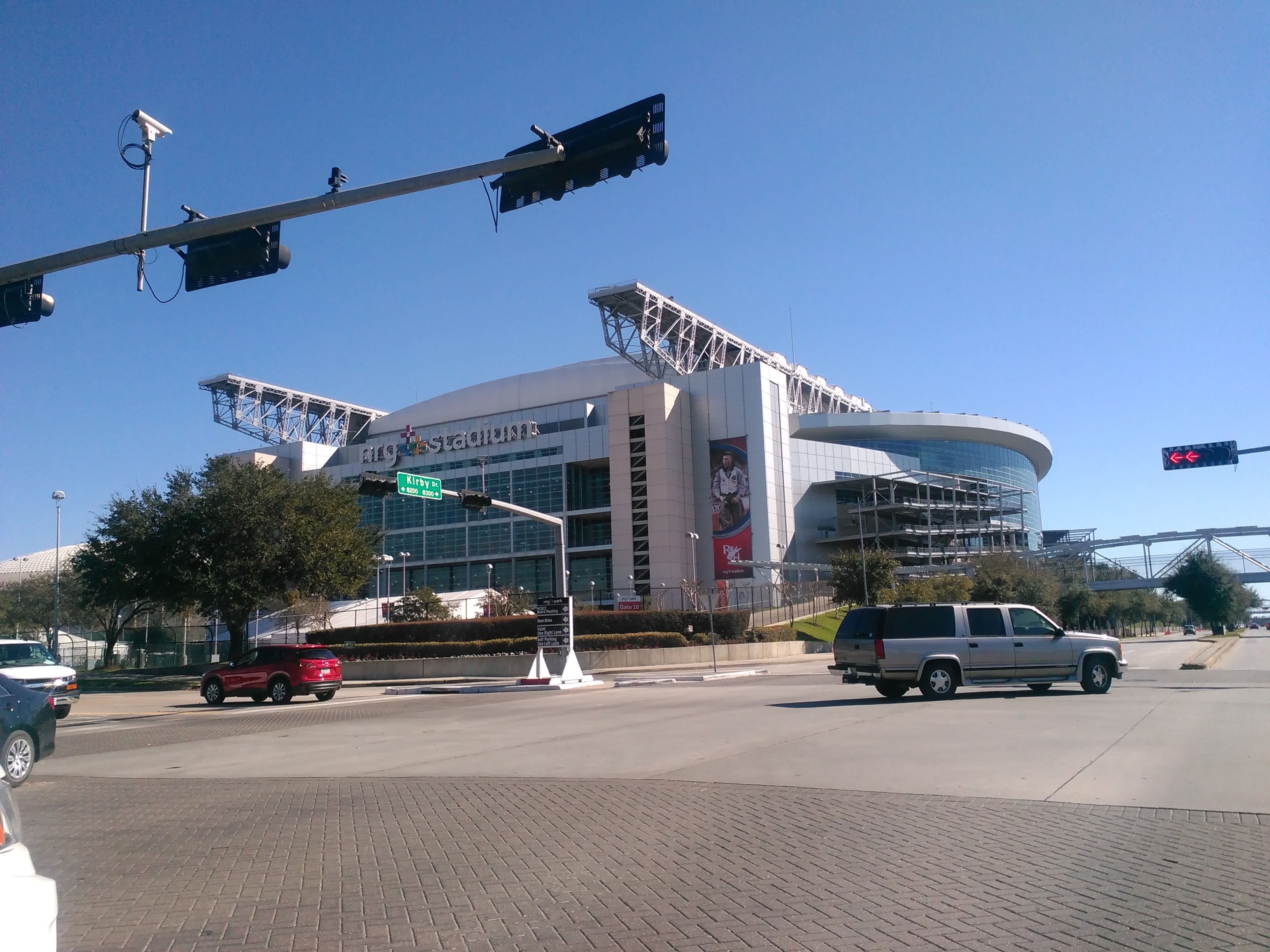 NRG Stadium